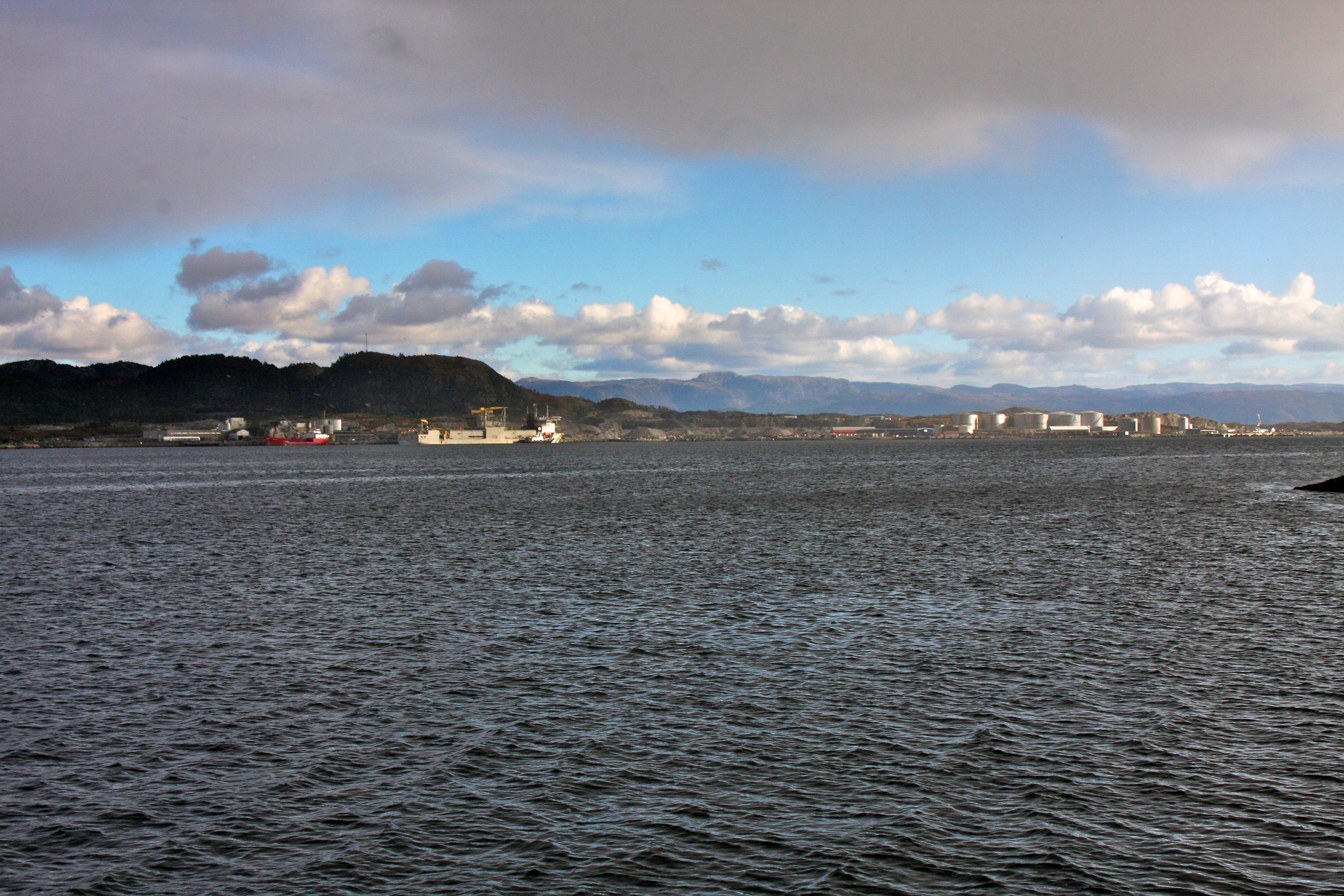 Gulen municipality, Norway.